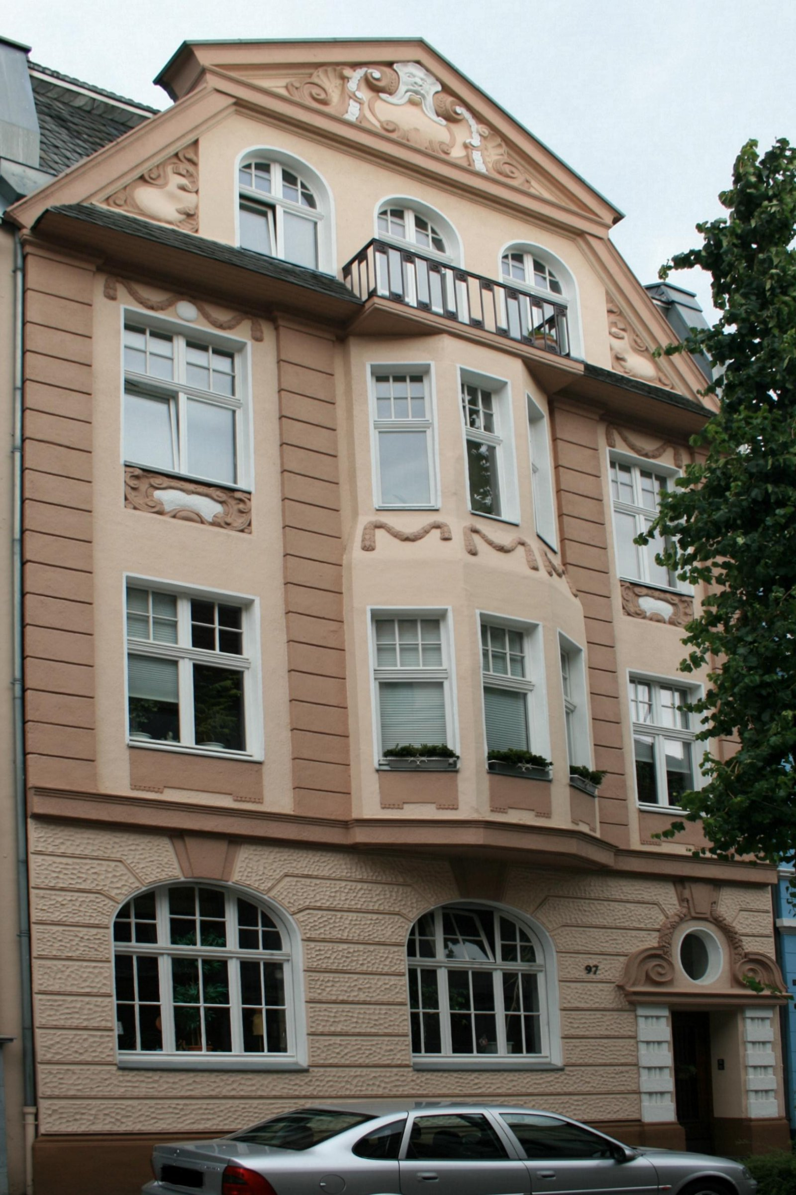 Cultural heritage monument No. W 031 in Mönchengladbach